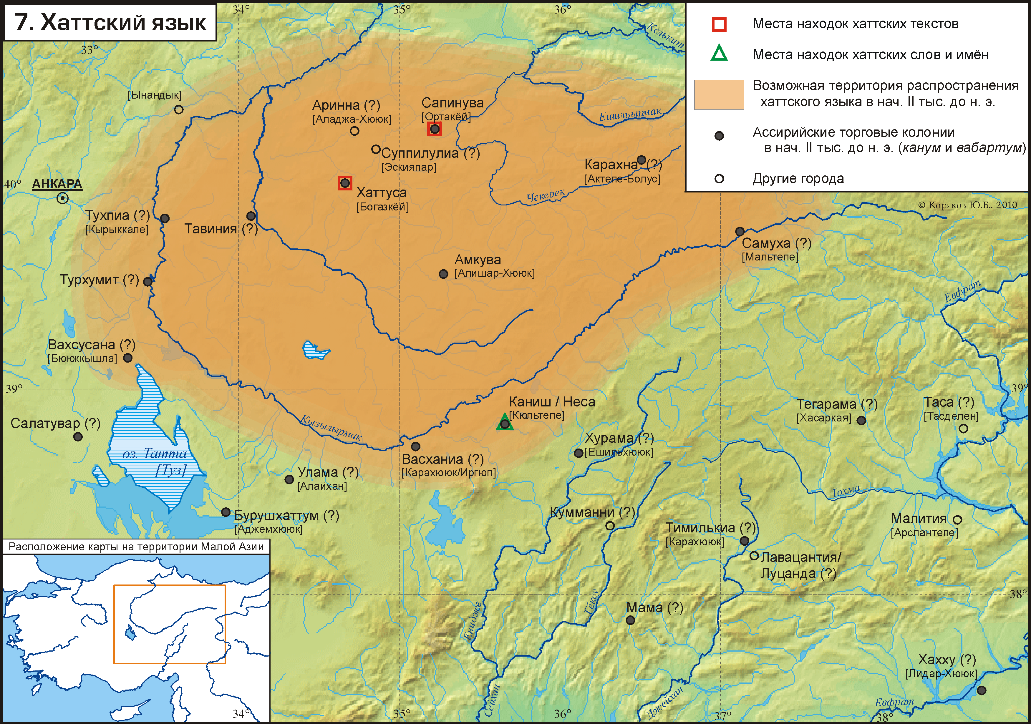 Map of Hattic language area, in Russian.